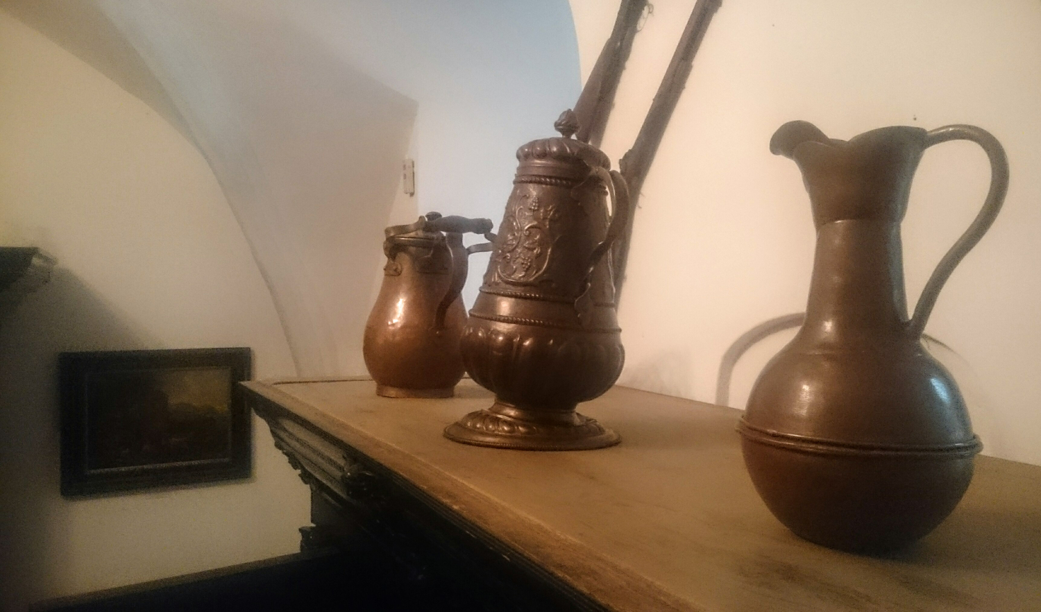 Part of the exposition in the Museum of Oporów castle.